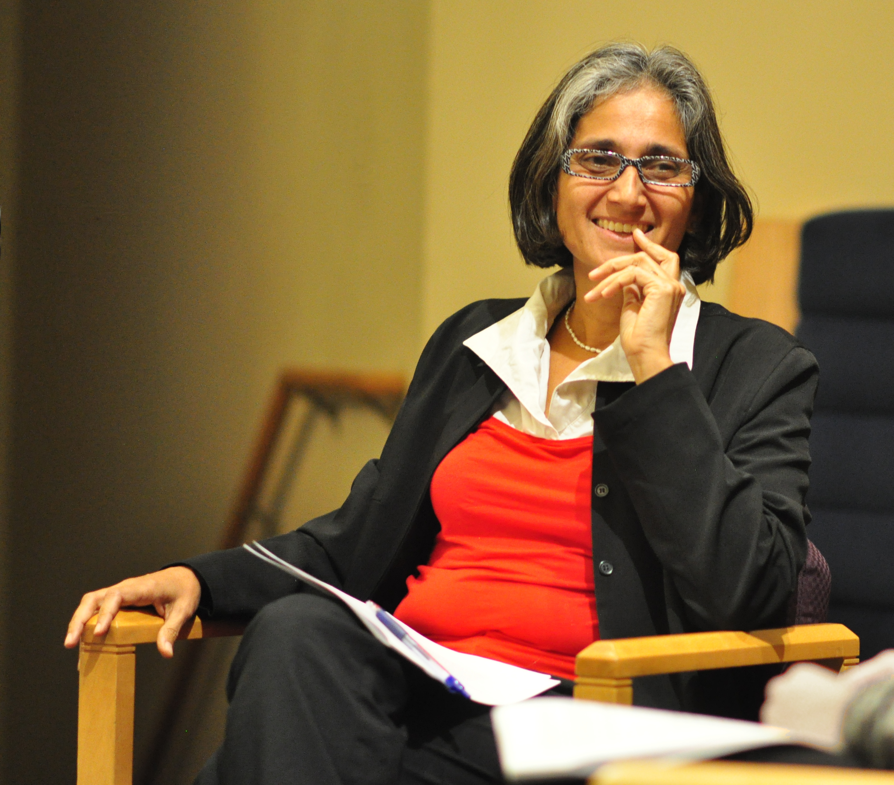 Sharon Abraham-Weiss, executive director of the Association for Civil Rights in Israel (ACRI) speaking at Congregation Beth Shalom, Seattle, Washington, U.S. under the sponsorship of the New Israel Foundation.